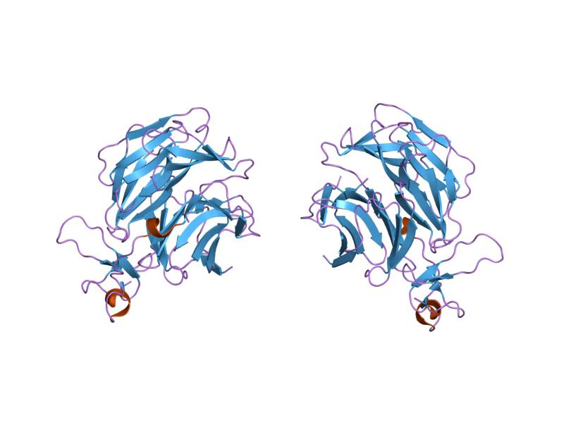 Cartoon representation of the molecular structure of protein registered with 1ijq code.